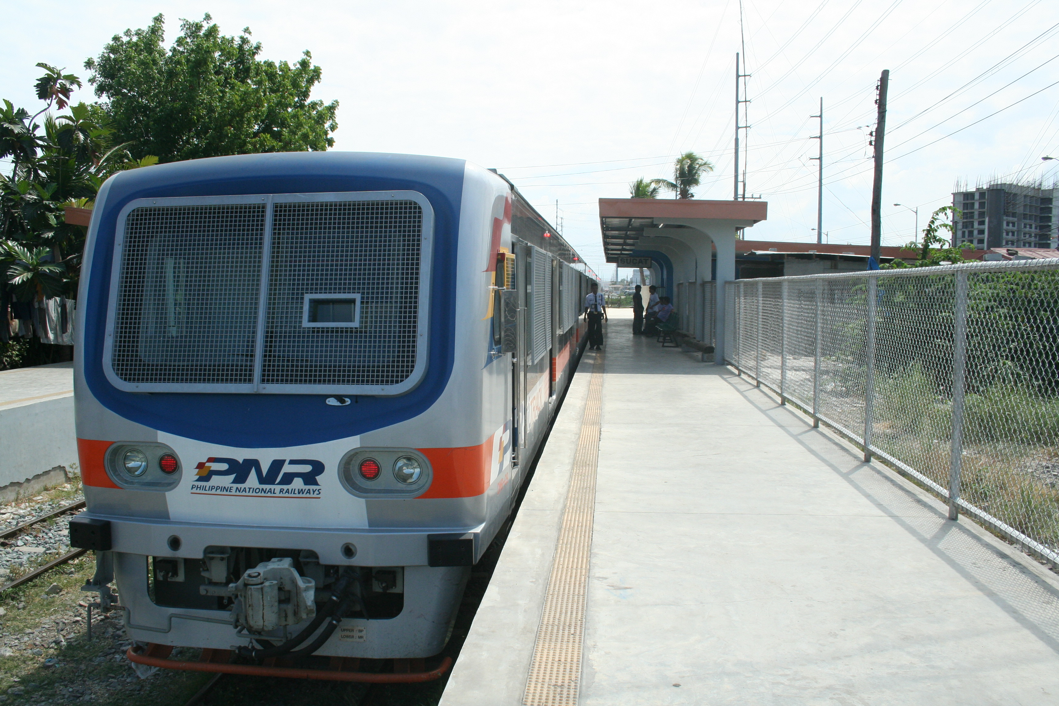 Northbound platform of Sucat railway station with a parked Philippine National Railways diesel multiple unit.